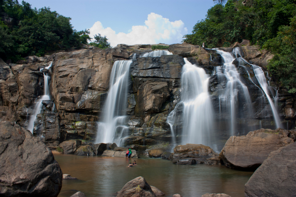 Depicted place: Jonha Falls